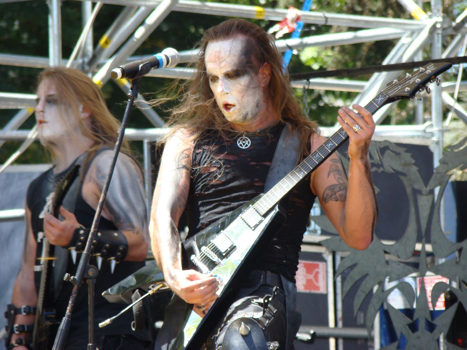 Behemoth live